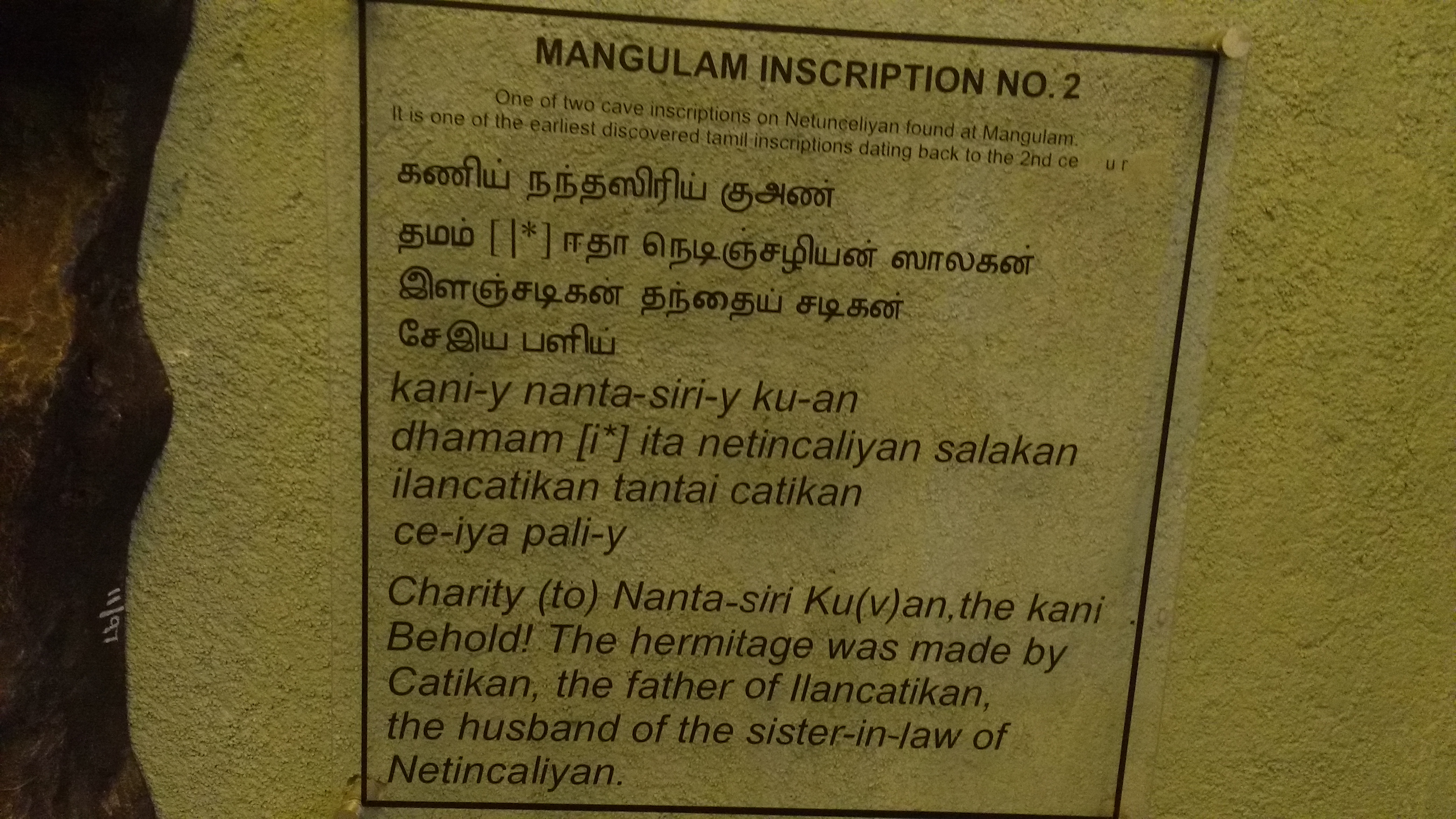 Mangulam Tamil Inscriptions (Model)